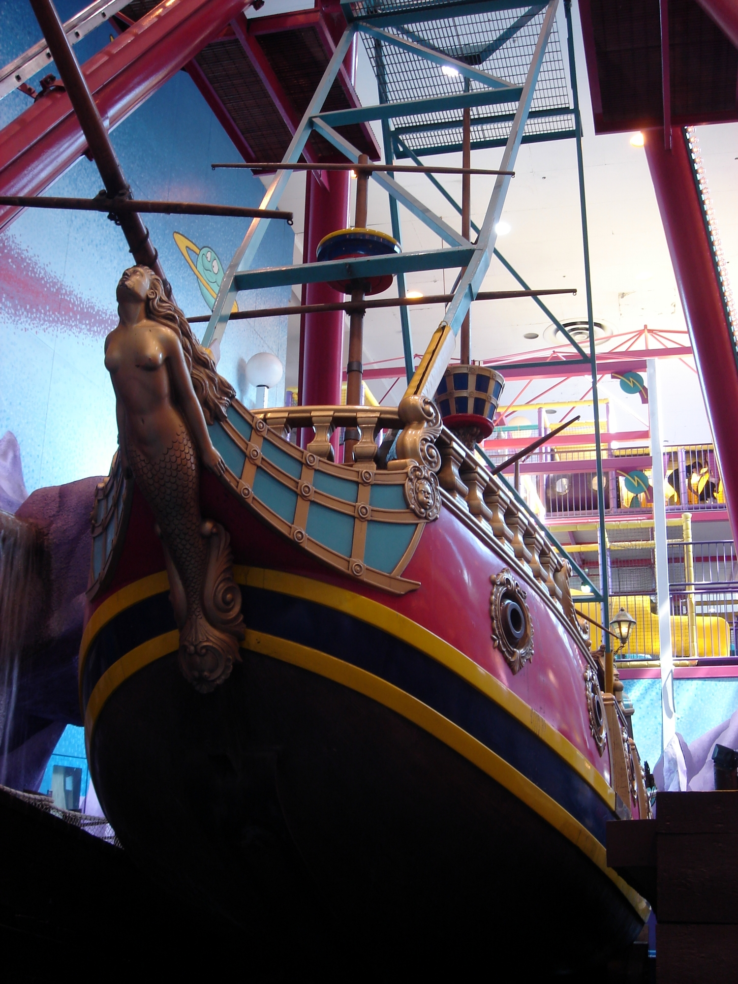 "Flying Galleon" in Galaxyland, West Edmonton Mall, Edmonton, Alberta, Canada